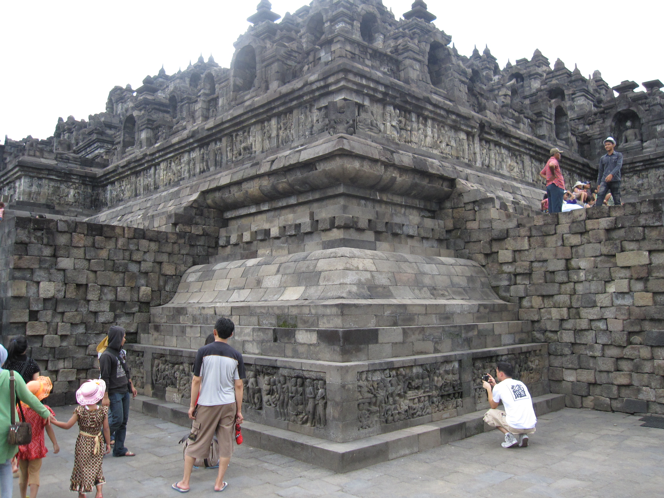 Excavated section of the stupa Borobudur, showing how the original base was too weak and had to be re-enforced at a later stage with another layer of stone. The original stone reliefs underneath the new layer are in a very good state of preservation and have been photographed by the archaeological survey when initially laid free. Today they are covered up again.